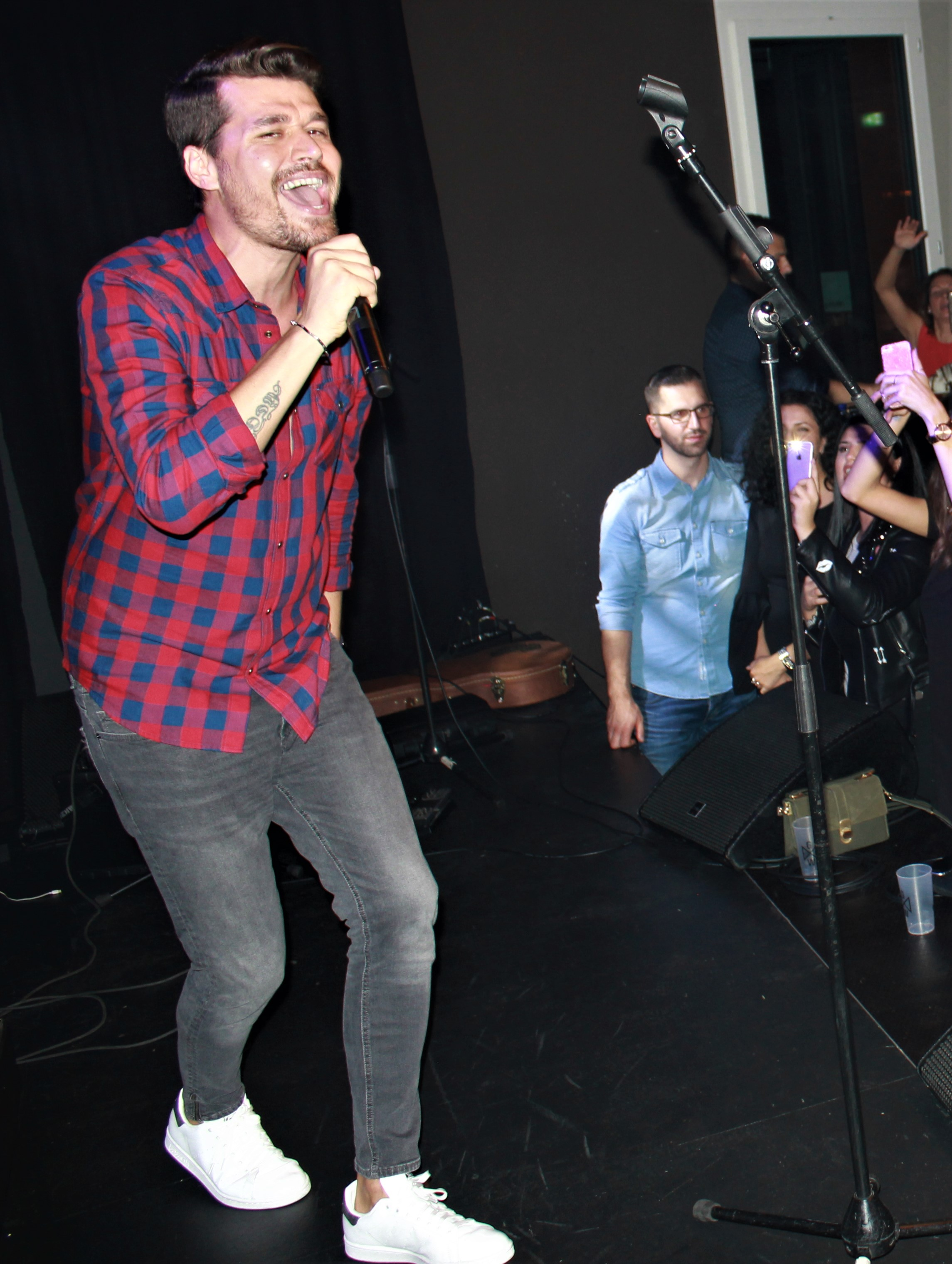 Alban Skenderaj on stage at a Swiss music club.